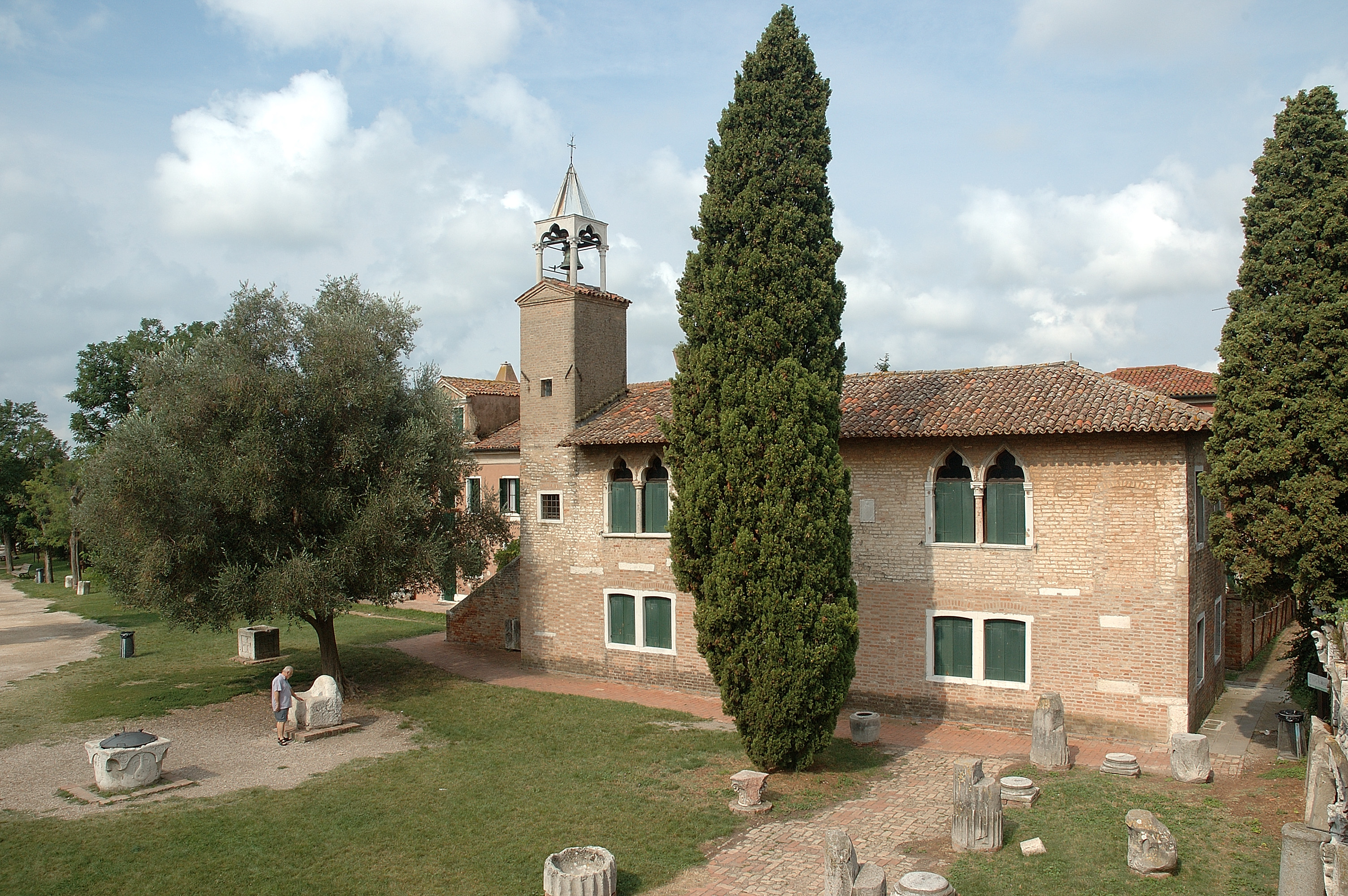 Museo del Torcello